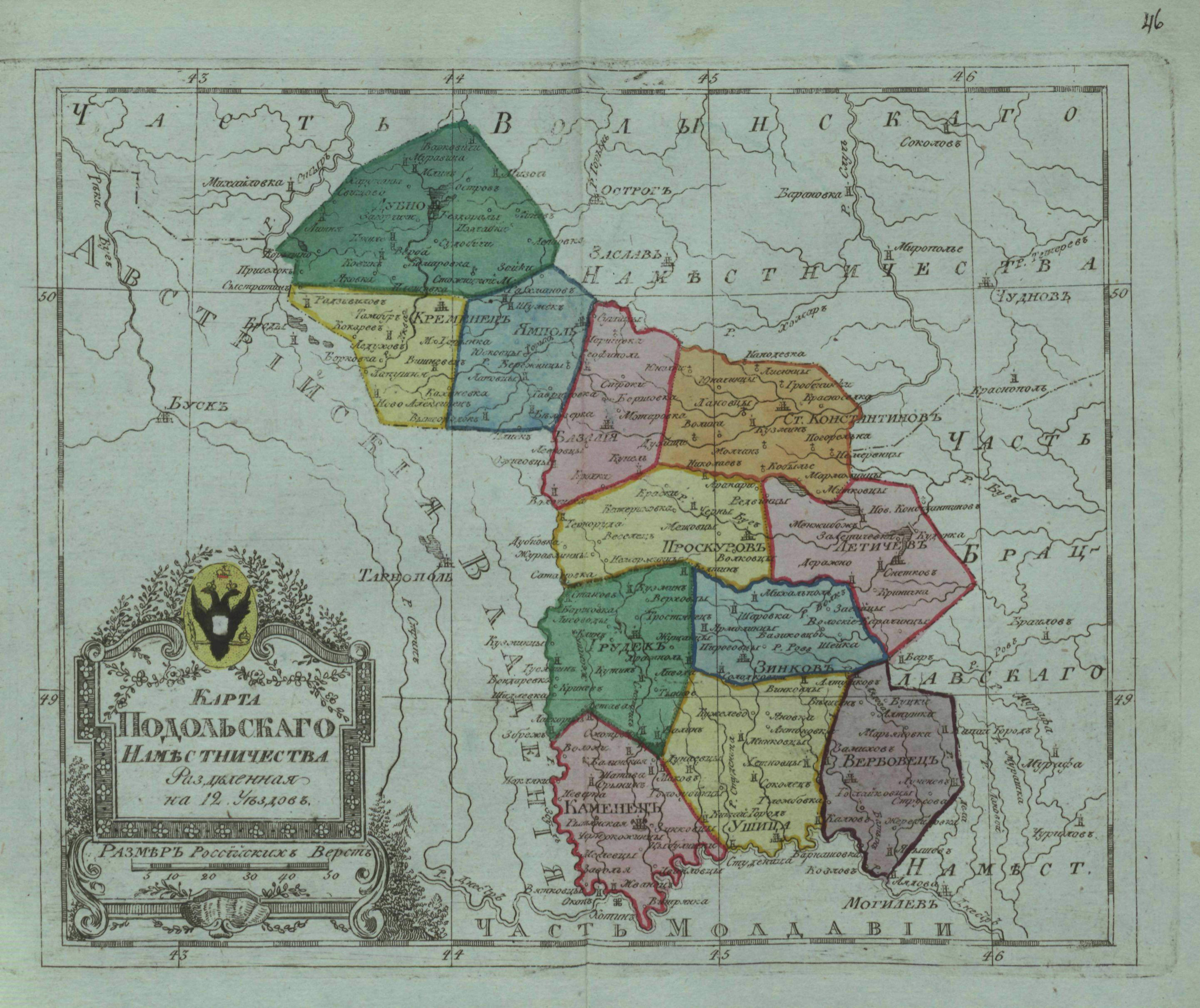 Small atlas of the Russian Empire (1796). Map of Podolsk Namestnichestvo (map 46).